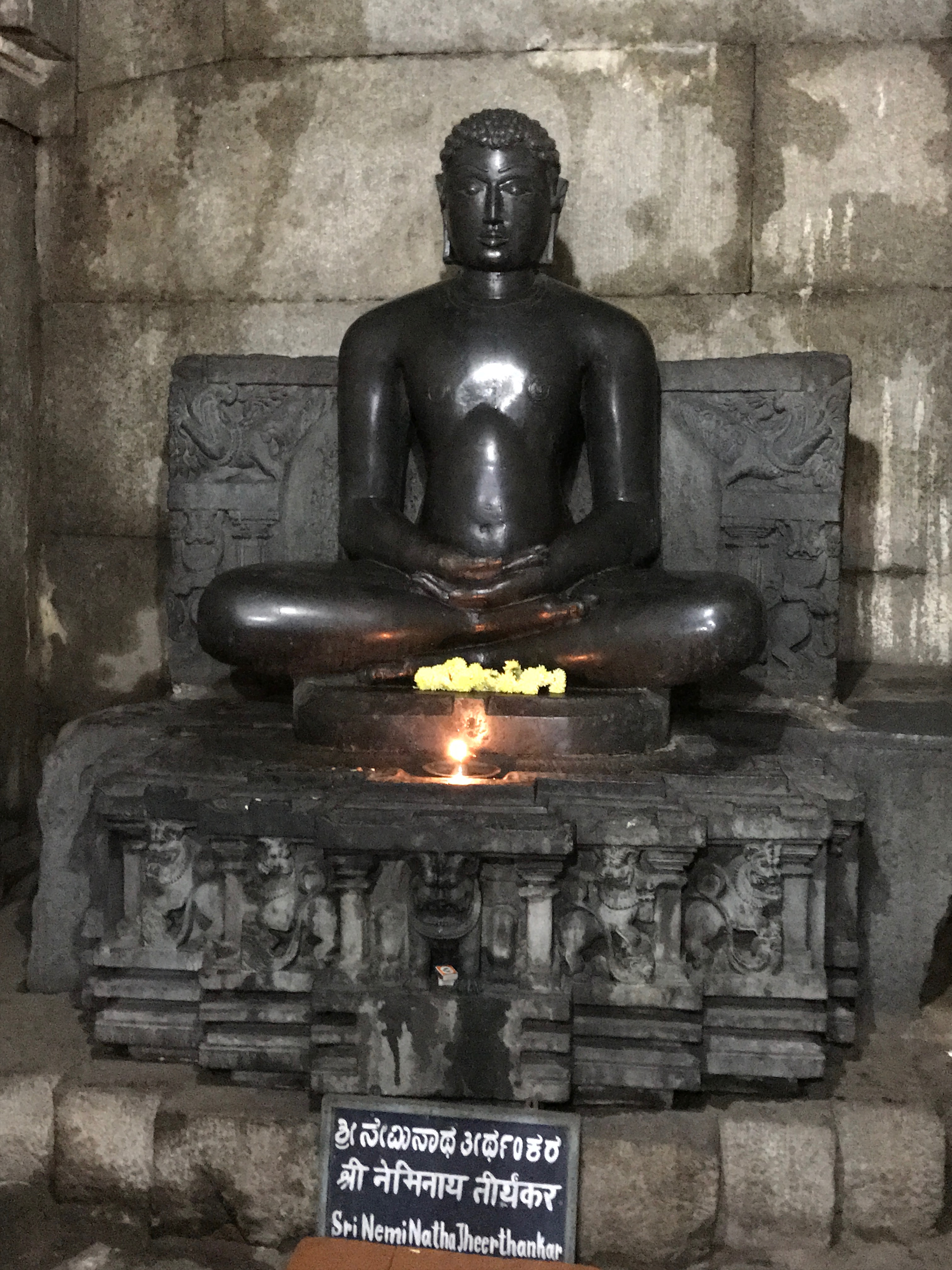 Shravanabelagola is one of the most important pilgrimage sites of Jainism, particularly for its Digambara sect. The site includes two rocky hills on which are historic Jain shrines and temples from the 1st millennium CE. The town has other Jain monuments, as well as Hindu temples with Dravidian gopuram architecture that co-exist with the Jain temples. The site is most known for its colossal Bahubali (Gommateshwara) statue and for being the place which Digambara tradition believes was the place where Chandragupta Maurya spent last years of his life as a Jain monk and committed Sallekhana (voluntarily end to his life in old age by not eating food or drinking any form of nourishment). The Vindhyagiri hill features several small shrines, the colossal Bahubali statue, numerous inscription rocks from different centuries, as well as a bhandara (storage, library/collection) of historic statues of all 24 Tirthankaras. The temple is active, draws Jain devotees and pilgrims for whom there are nearby dharmashalas. The pilgrims make sacrificial offerings such as rice, flowers, fruits, money, etc and pray. The Jain priests offer aarti, tilaka and other rituals to those who visit for darshana.